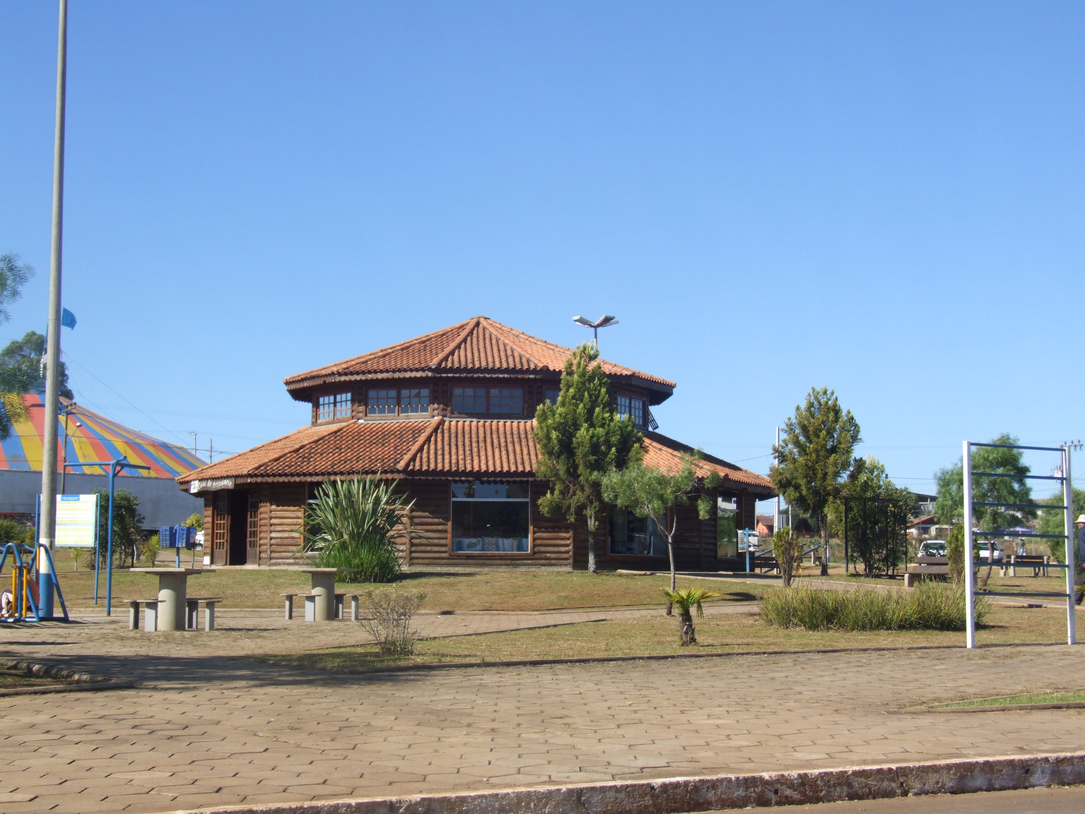 House of Crafts in Campos Novos, opposite the City Bus Terminal